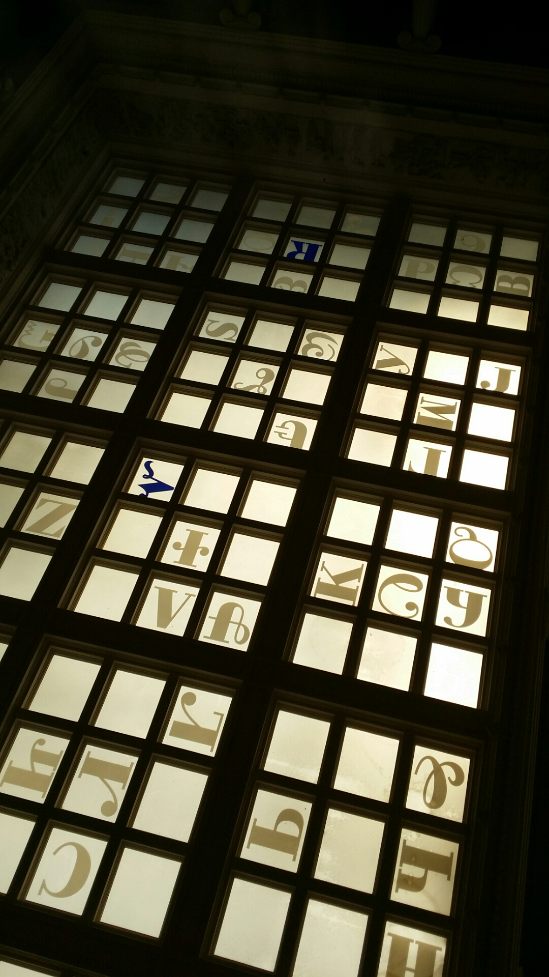 "The Tongue of the Cherokee" by Lother Baumgarten (GERMAN, b. 1944), on display in the skylight of The Carnegie Museum of Art's Hall of Sculpture, Pittsburgh, Pennsylvania